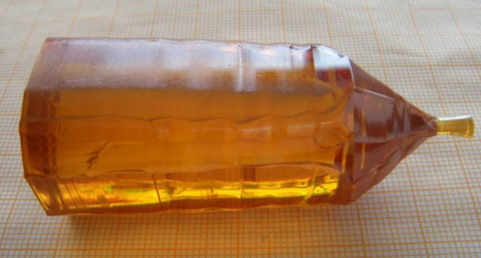 Bismuth silicon oxide (Bi12SiO20 , BSO) crystal